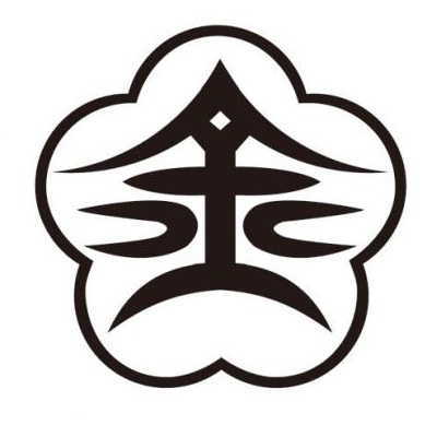 Kanazawa Ishikawa chapter